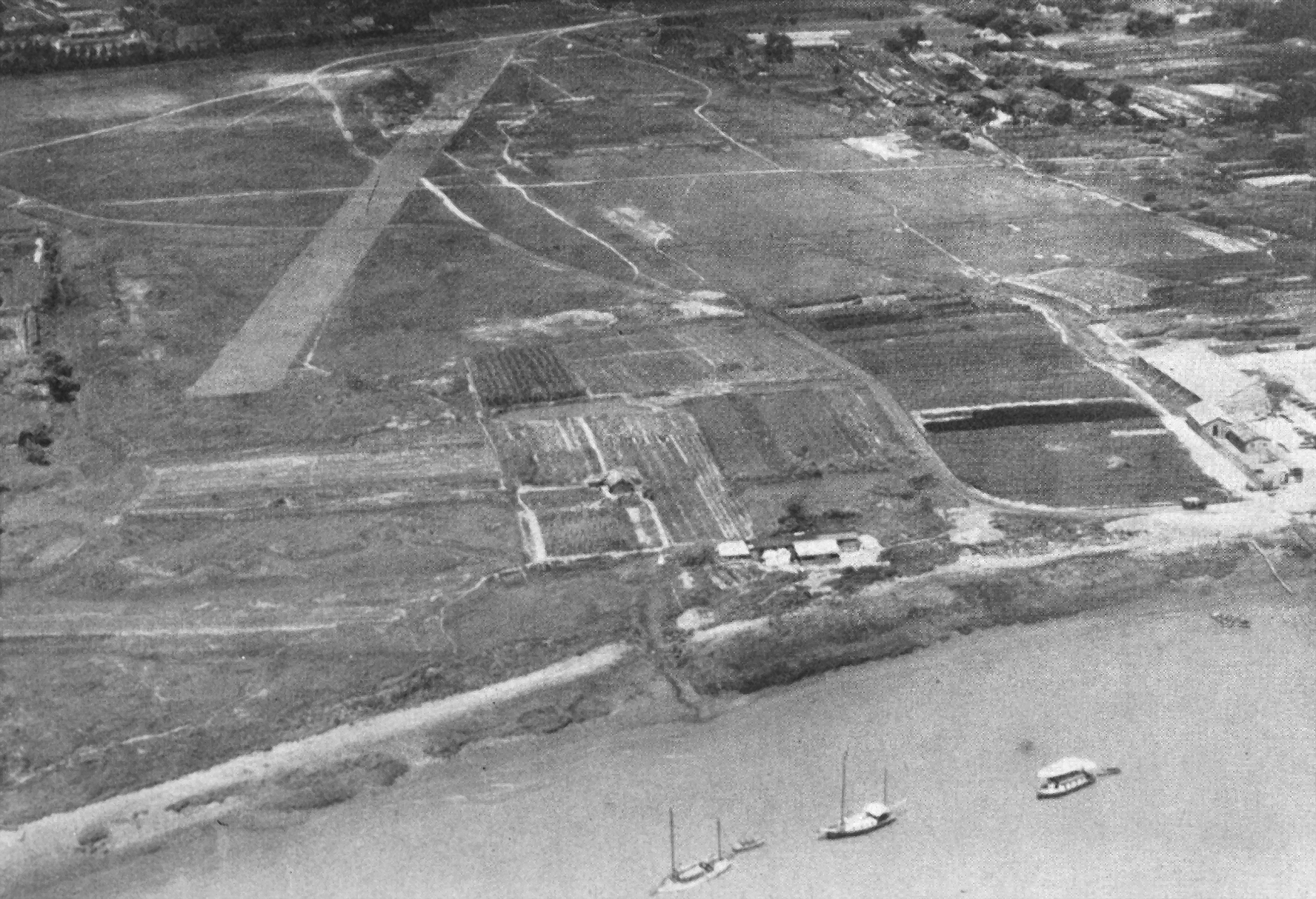 Aerial view of Longhua (Longhwa) Airport ca. 1931.中文（中国大陆）: 1931年代的上海龍華機場鳥瞰